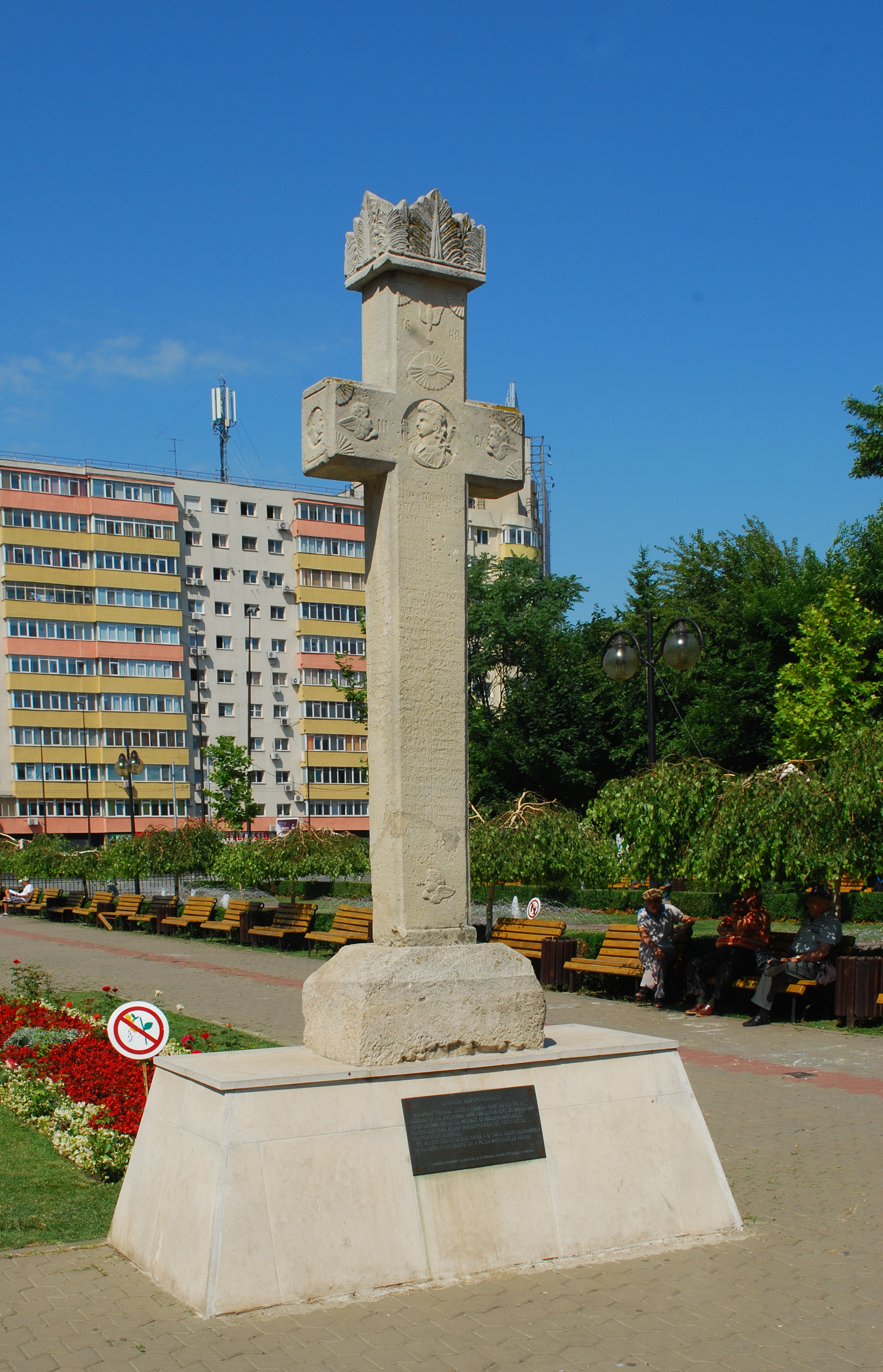 Stone cross in Obor Park, Bucharest, Romania, formerly located at the intersection of Pantelimon Road and Chiristigii street.